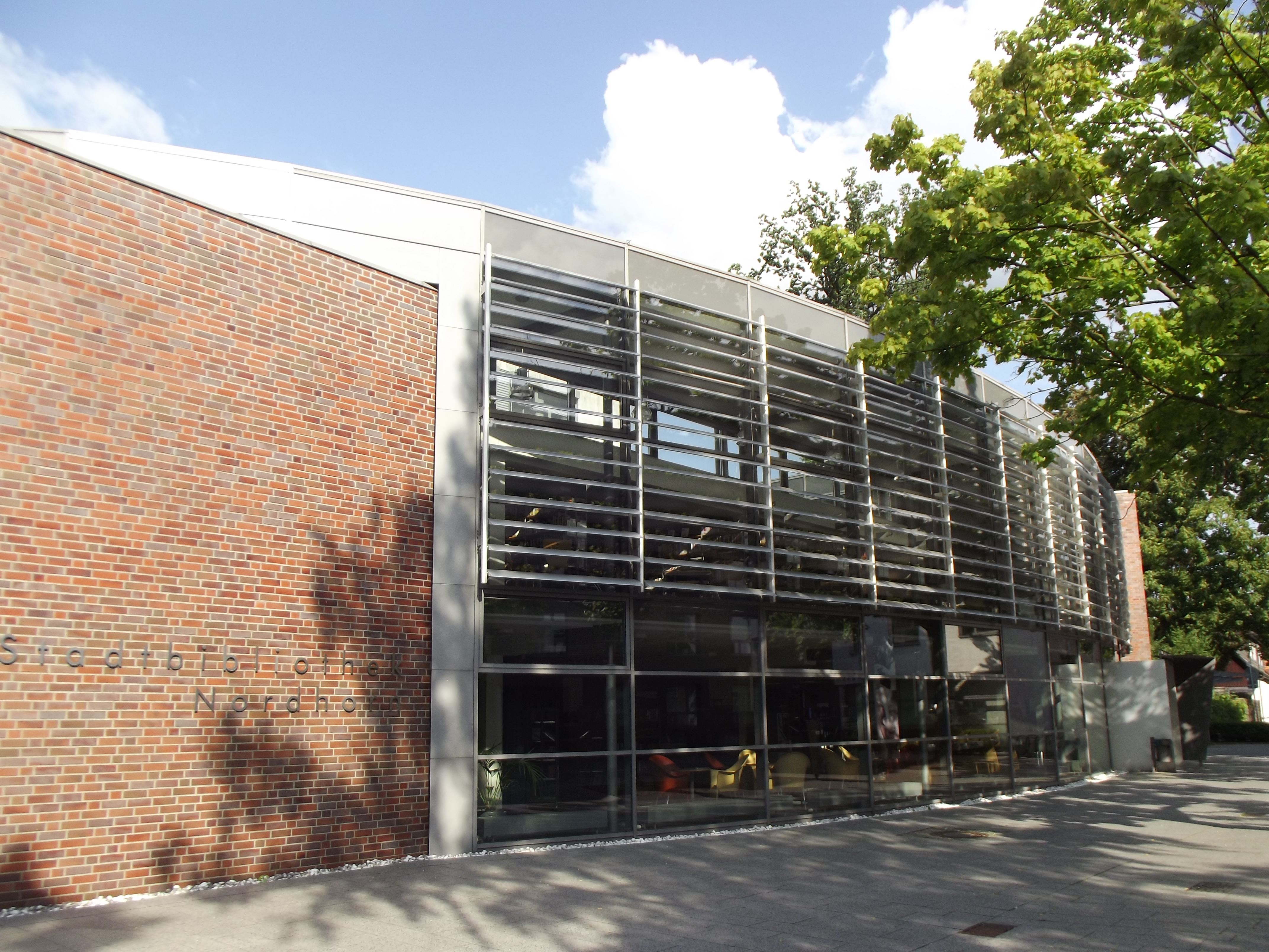 The building which harbours the municipal library. "Stadtbücherei" can be read on the left hand side.